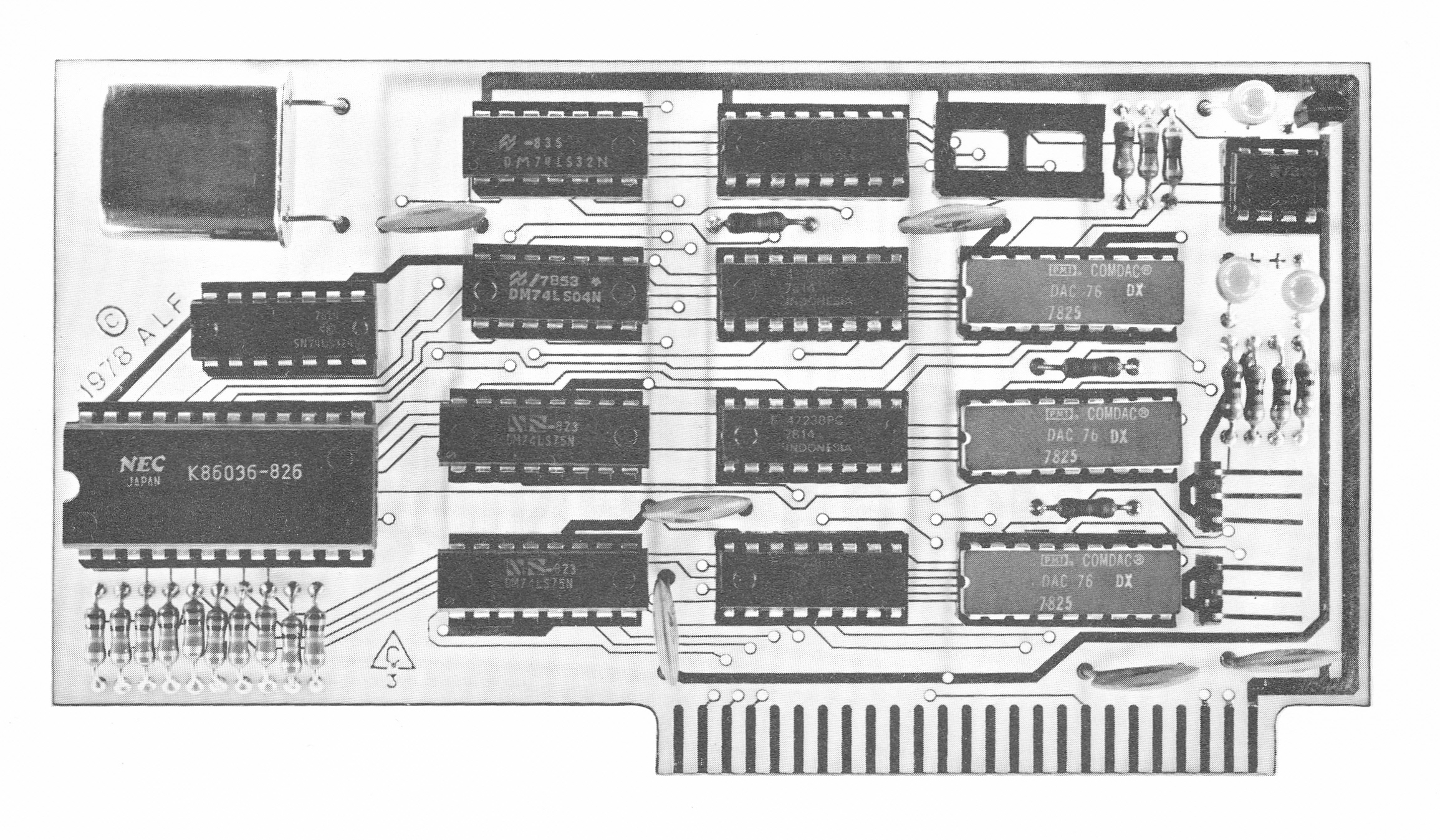 ALF Products Inc. Music Card MC16 circuit card, front side.